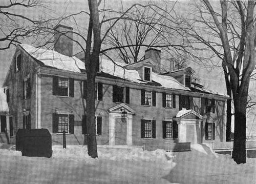 Photograph of the Ladd-Gilman House, Exeter, New Hampshire, from the book Historic Homes of New England, Mary Harrod Northend, Little, Brown & Company, Boston, 1914. Retouched by MarmadukePercy